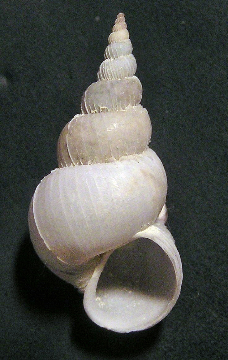 Epitonium irregulare (Sowerby, 1844), a wentletrap in the family Epitoniidae; Philippines